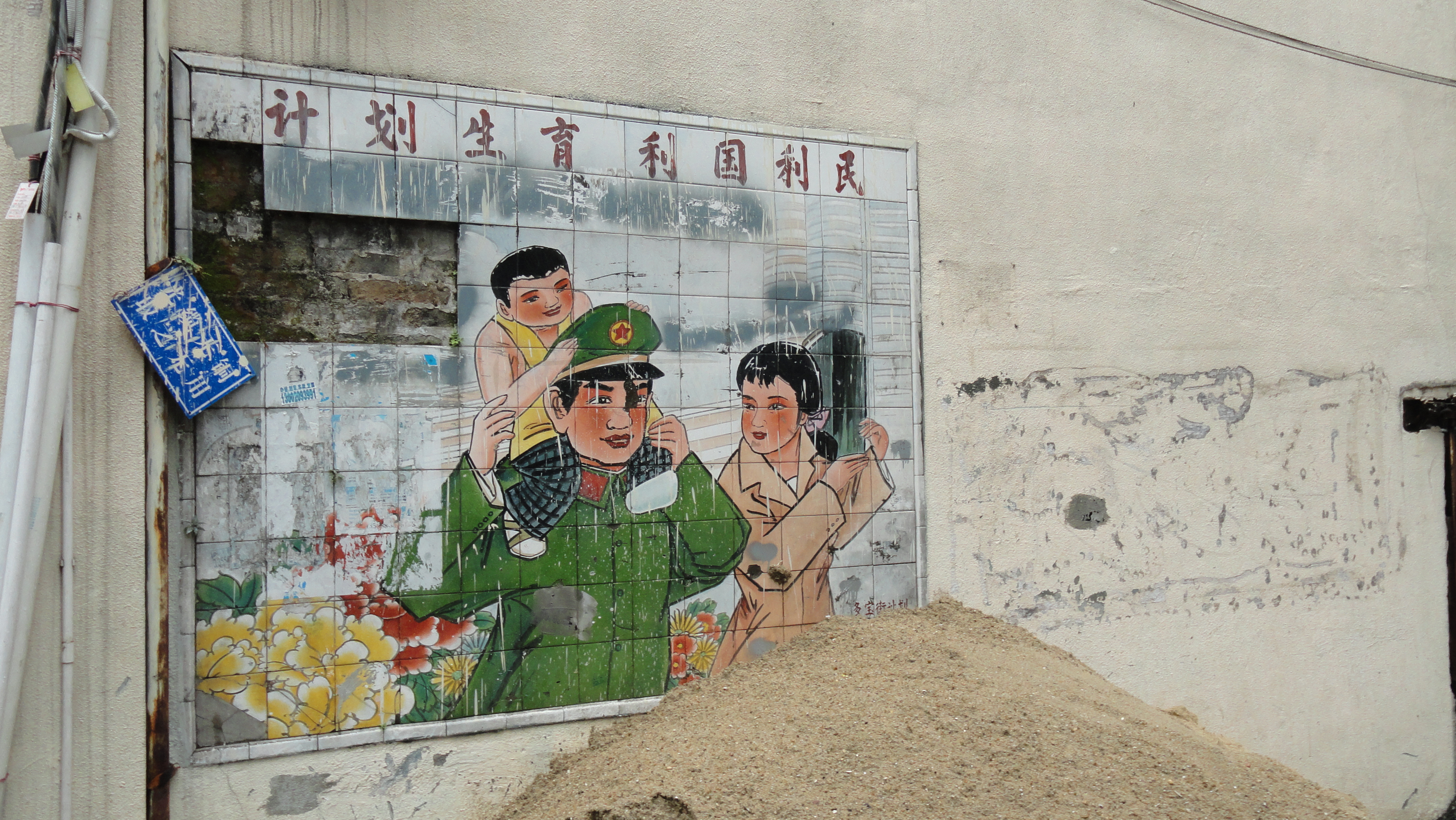 A street painting taken in Guangzhou, China.